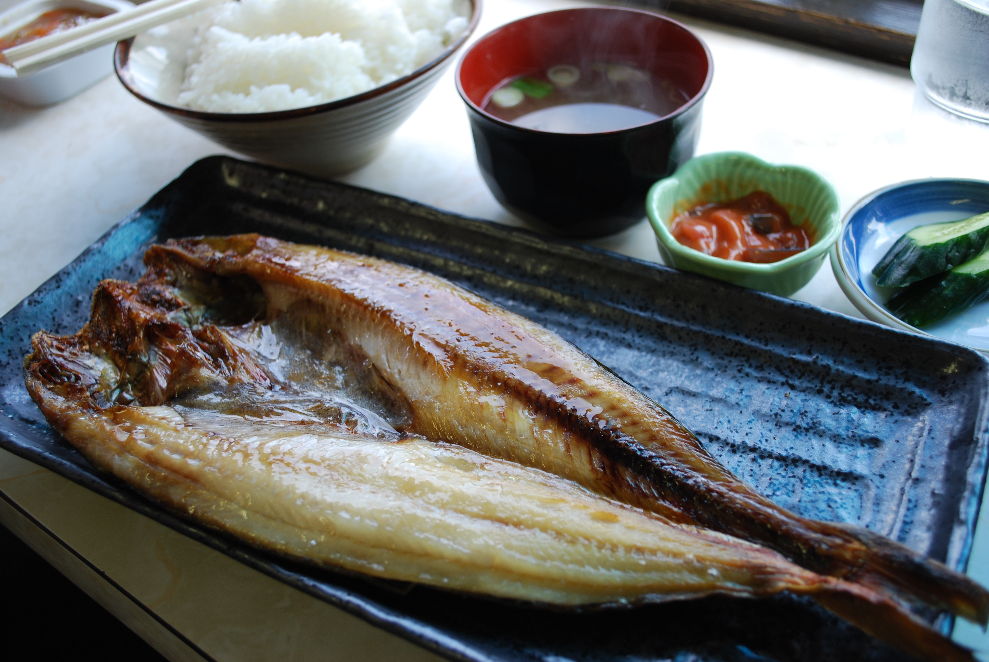 Okhostk atka mackerel,hokke-yakizakana-teisyoku,syari-town,japan